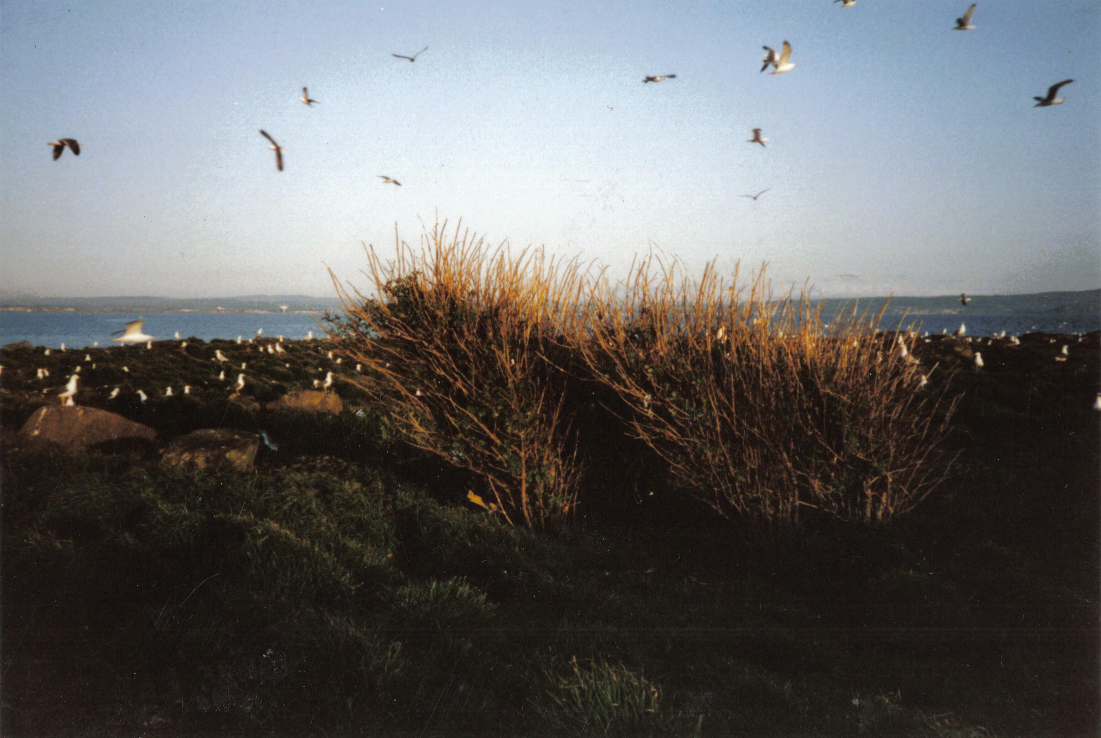 Lady Isle, South Ayrshire. Scotland. 1998. Roger Griffith. A view of the island looking towards the Heads of Ayr. The vegetation is visible. Elder bushes are in the foreground.